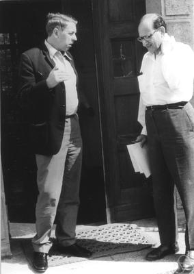 Photograph of Fred van der Blij (at the left) and Emil Grosswald (right). Where was this picture taken?